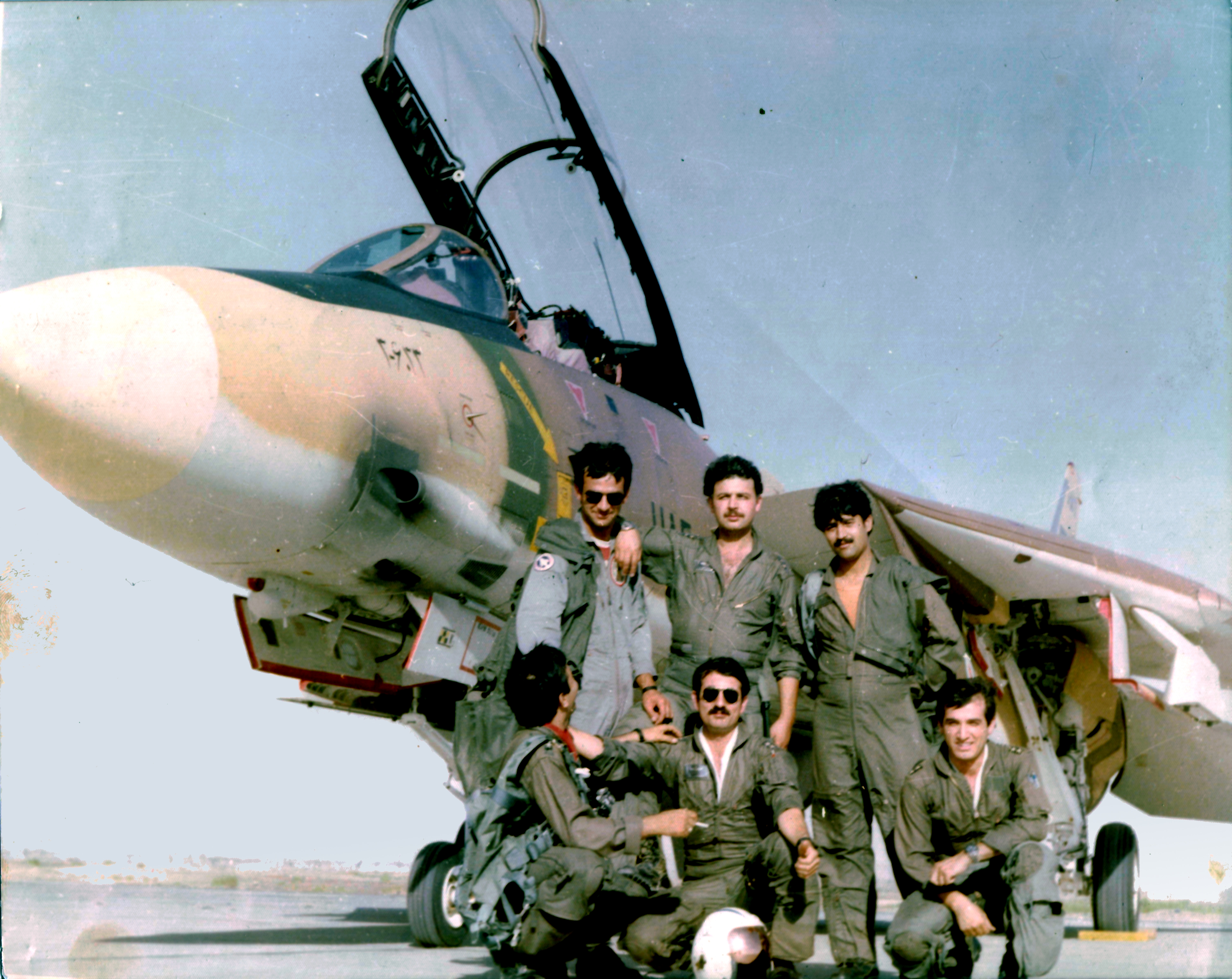 F-14 fighter pilots Standing from left to right: Jalil Zandi - updated Khalili - Anonymous Sitting from left to right: M. tribulation - A. Mhrganfr - Fereydoun Ali Mazandarani.